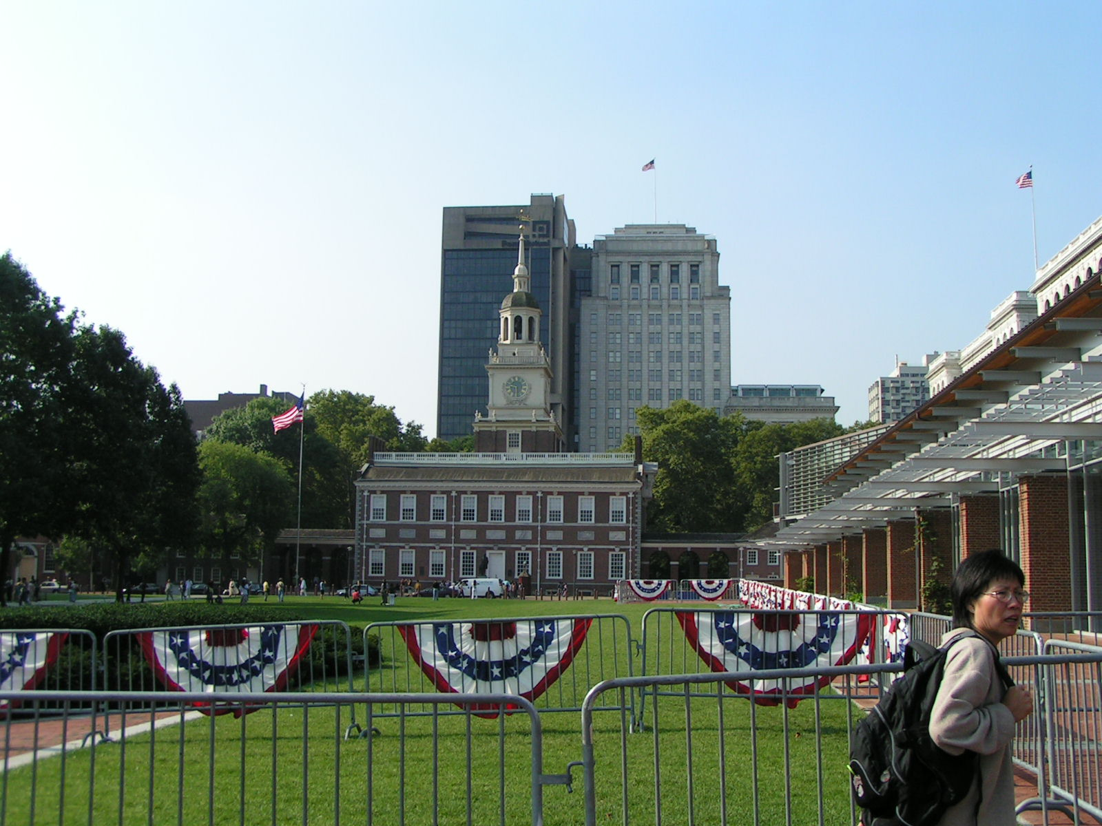 Taken from the path to the building that houses the Liberty Bell.